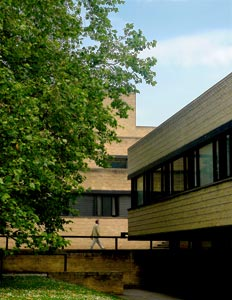 Law Faculty, St Cross Building